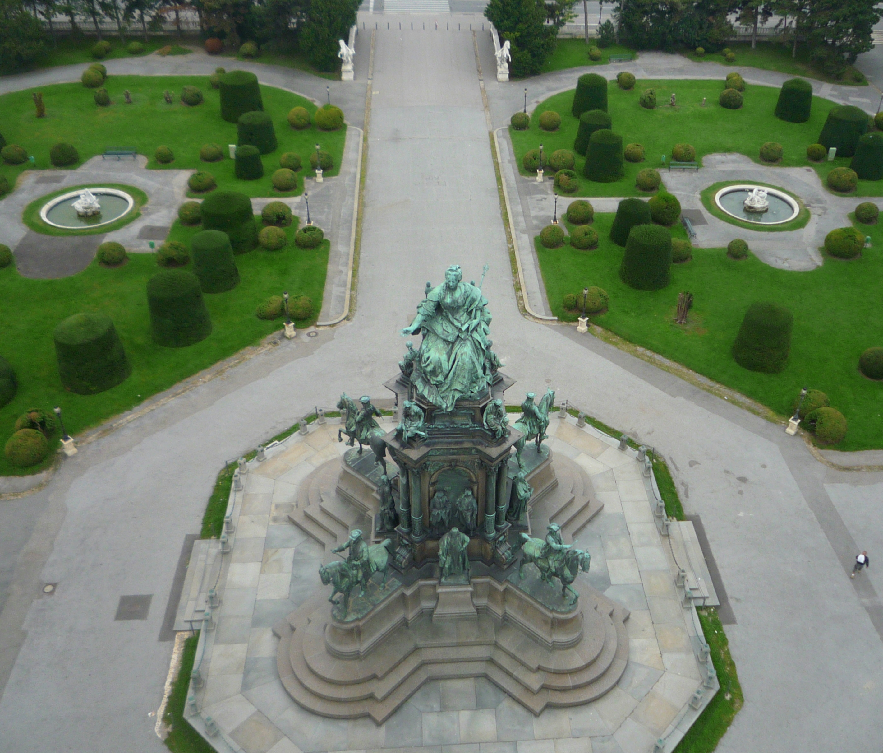 Austria, Vienna, Maria-Theresien-Platz